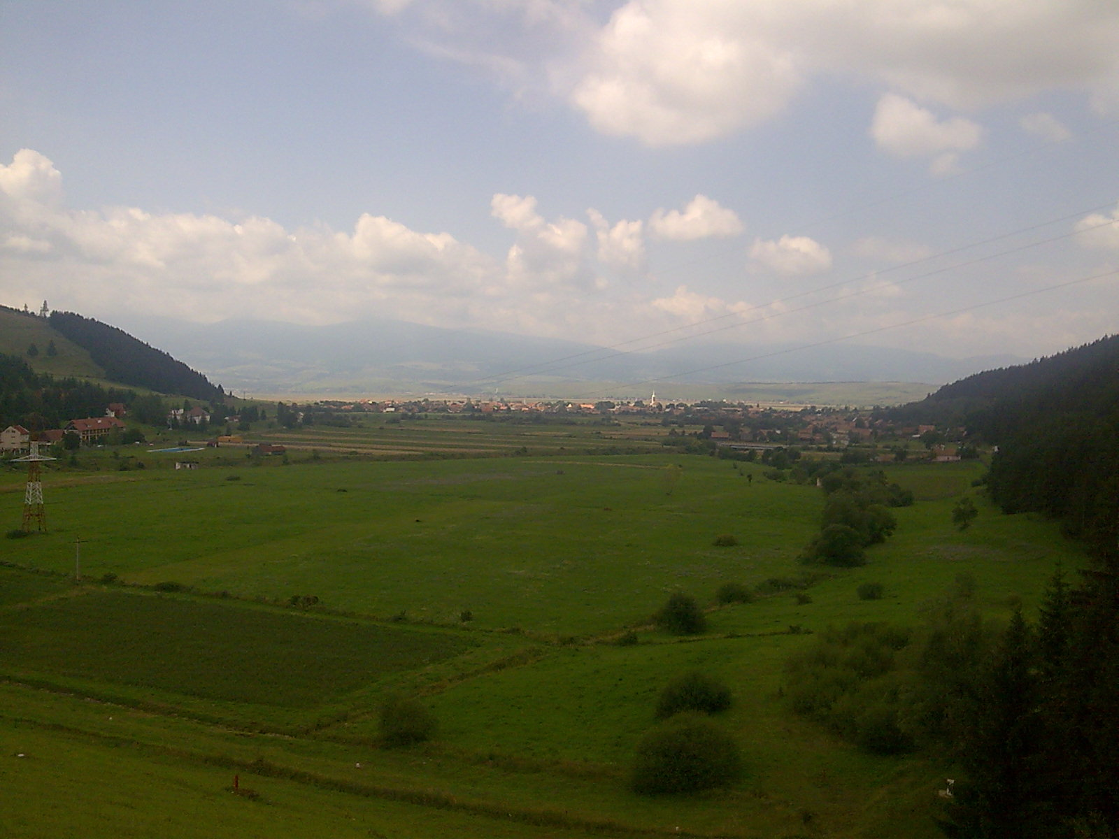 View of Csíkszépvíz (Frumoasa), Harghita County, Transylvania, Romania Az erdélyi Csíkszépvíz (Frumoasa) látképe a víztározó gátjáról nézve, Hargita Megye